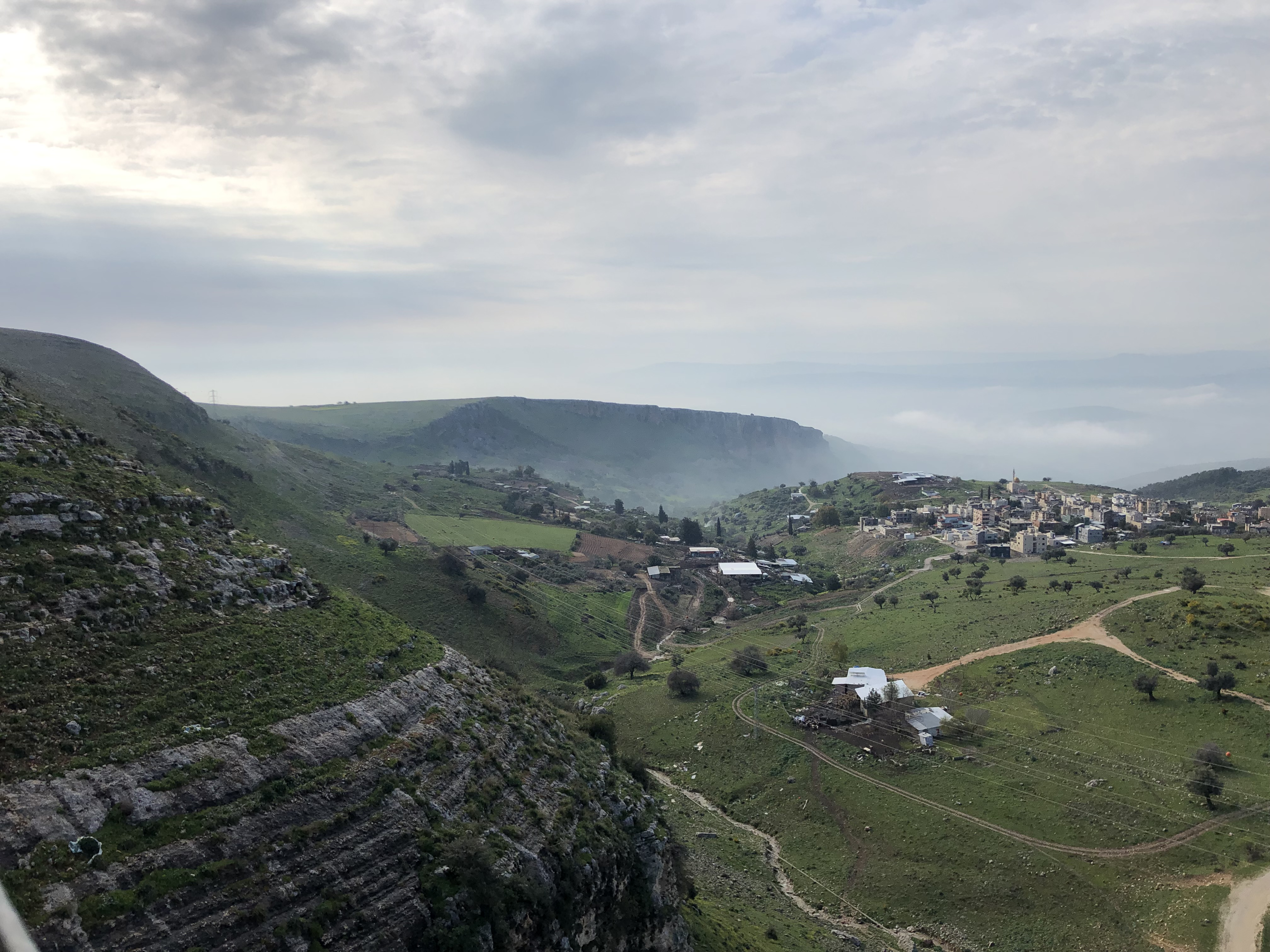 Akbara